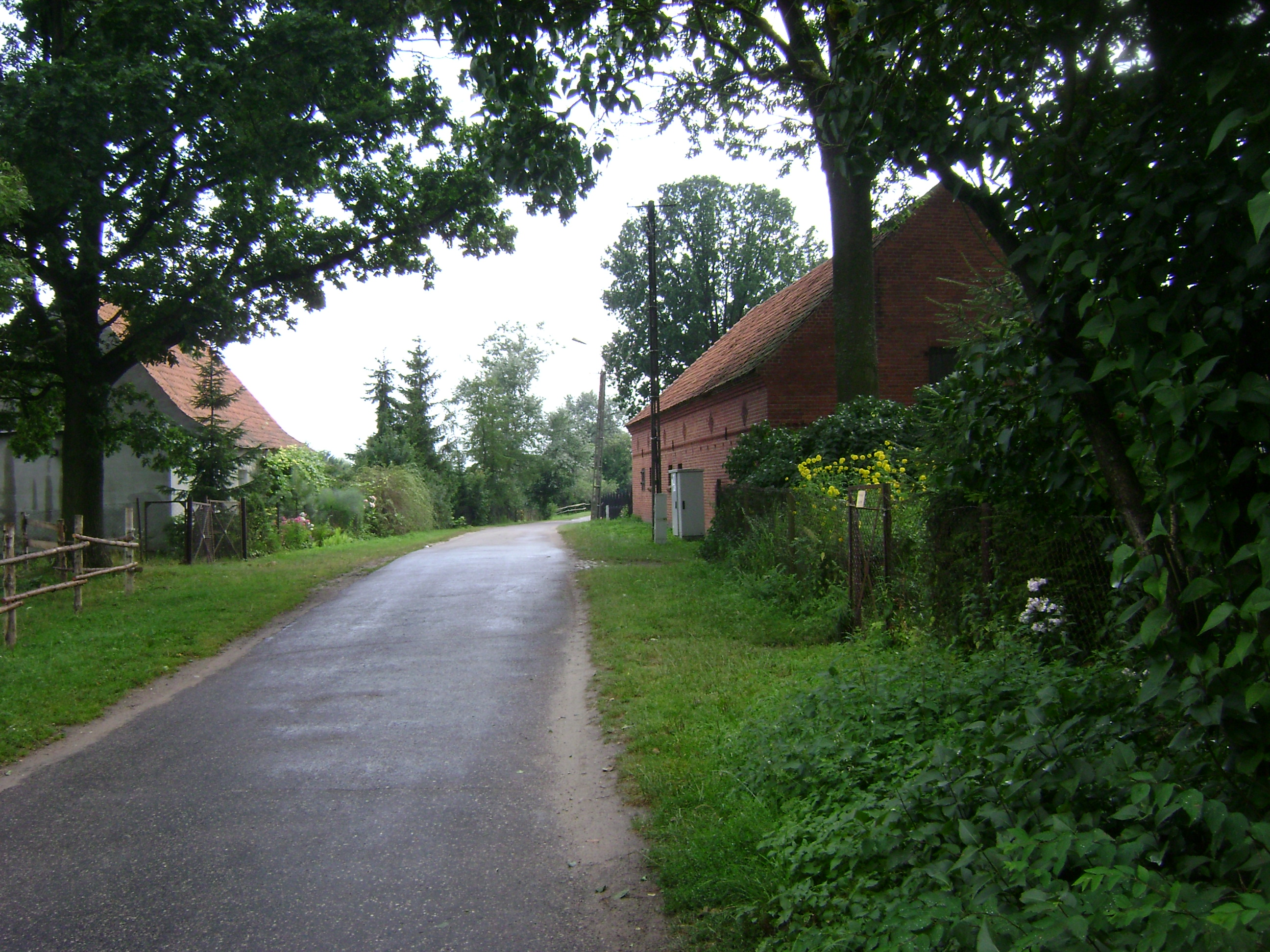 Brajniki